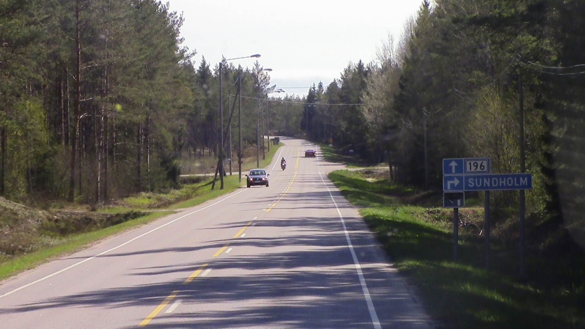 Finnish regional road 196 near Lokalahti in Uusikaupunki, Finland Proper. The road runs from Taivassalo to Laitila.